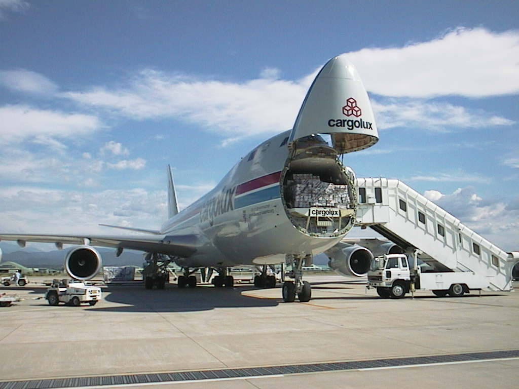 Ex-Air France (not taken up) Cargolux LX-ICV Boeing 747-428F unloaded at Komatsu Airport, Japan